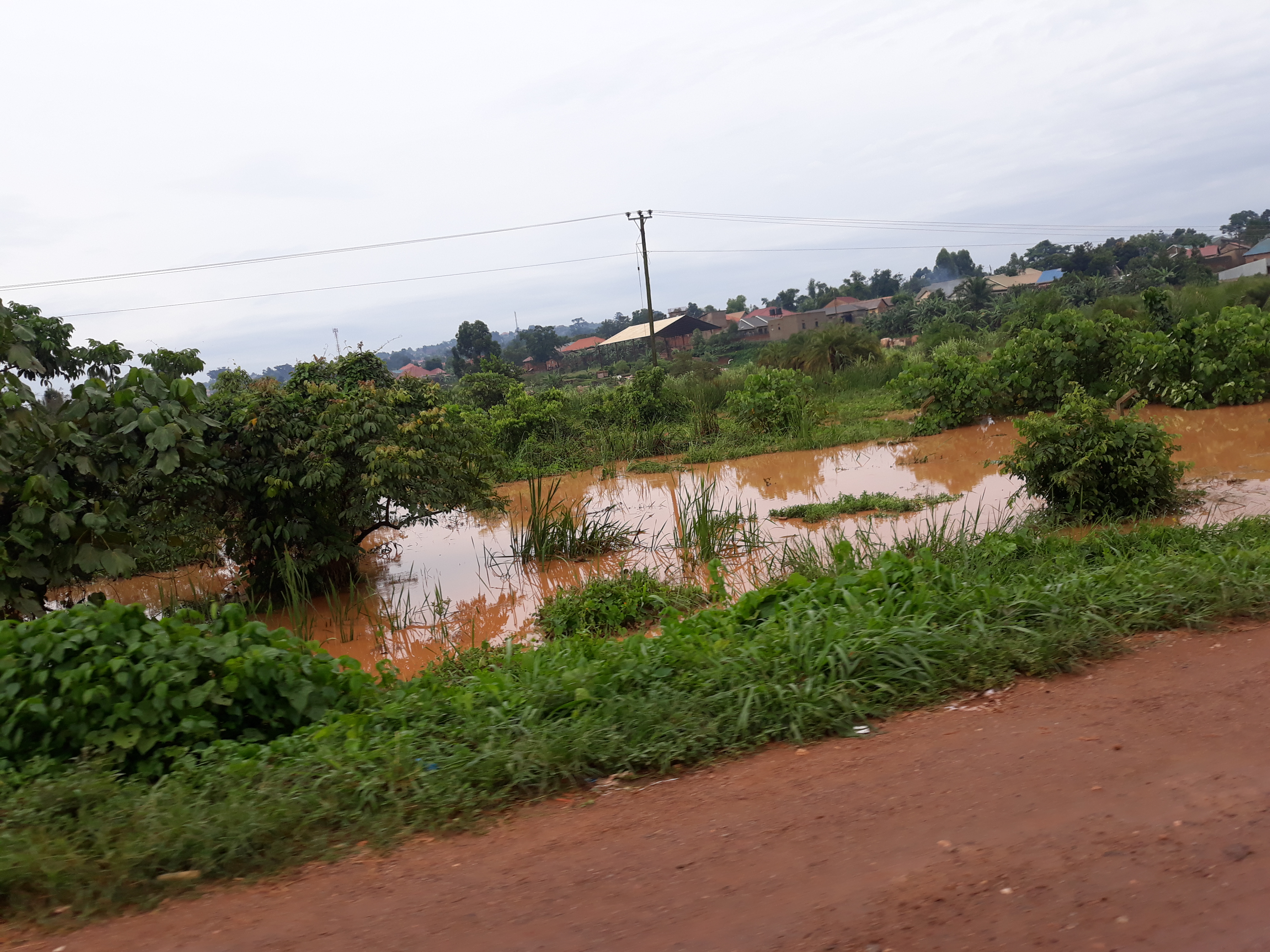 A section of a wetland flooded by heavy rains in Uganda This is an image with the theme "Africa on the Move or Transport" from: Uganda